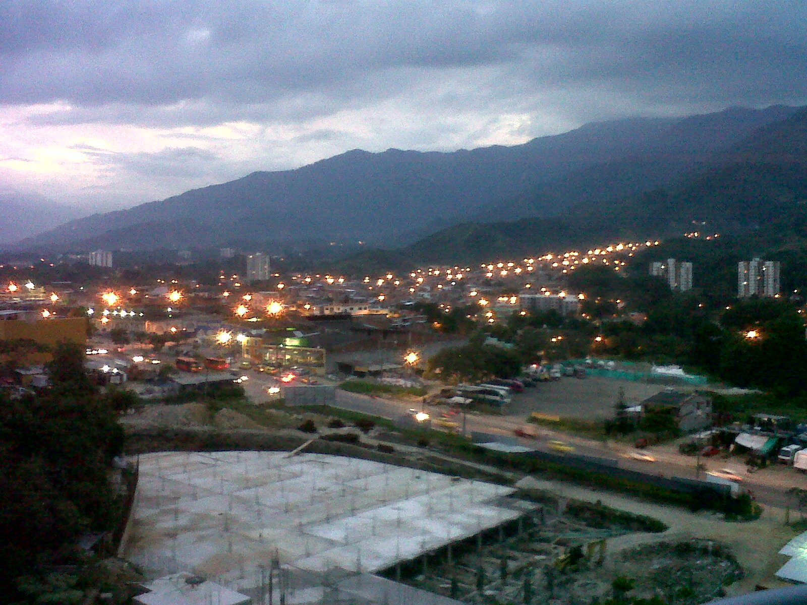 Panorámica del Norte de la Ciudad